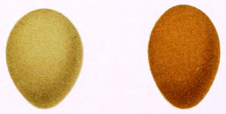 Egg of Common Nightingal. Henry Seebohm